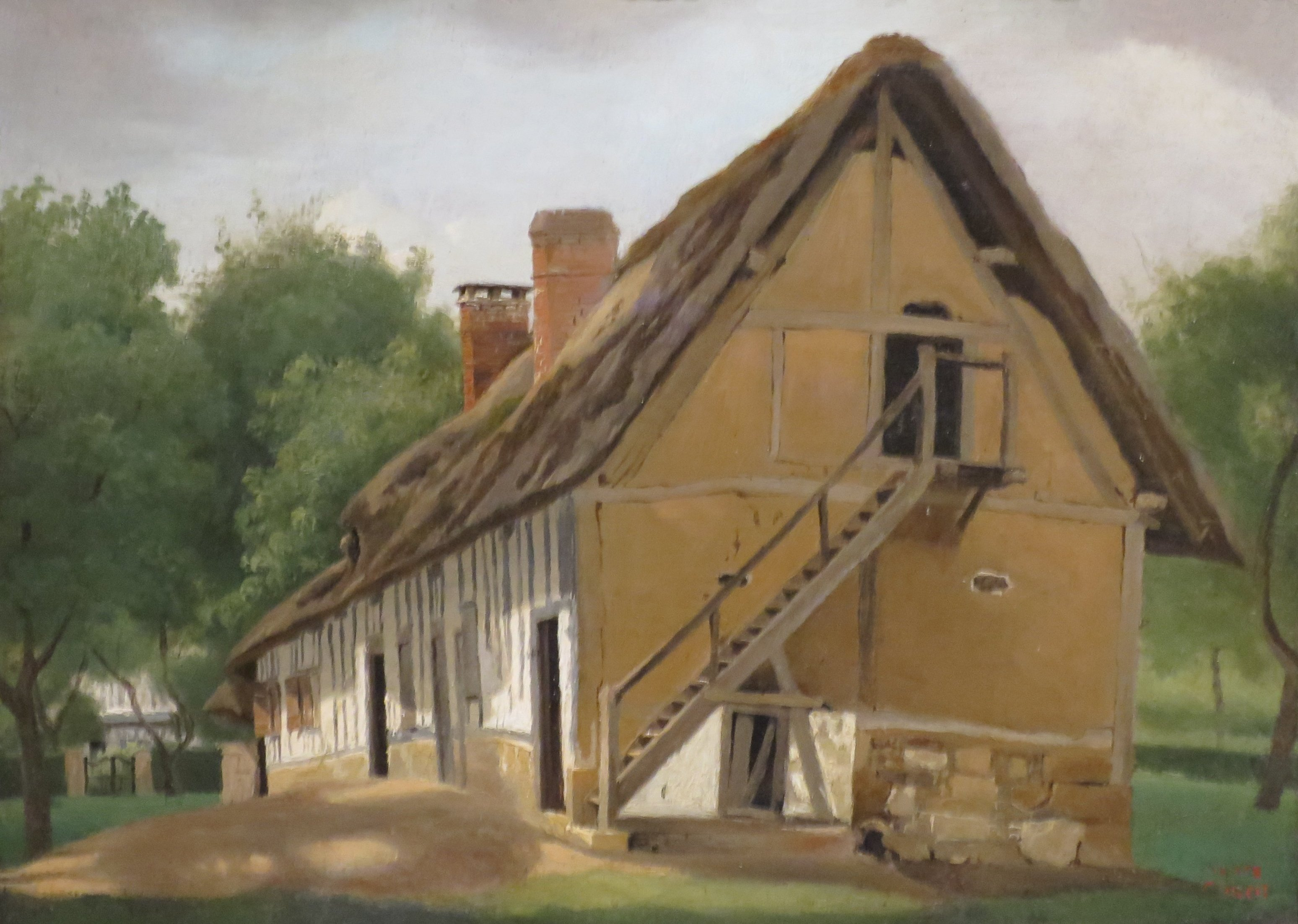 Farm Building at Bois-Guillaume, near Rouen